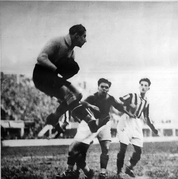 The Italian goalkeeper Gianpiero Combi during a Bologna - Juventus of the Italian Serie A 1928-1929